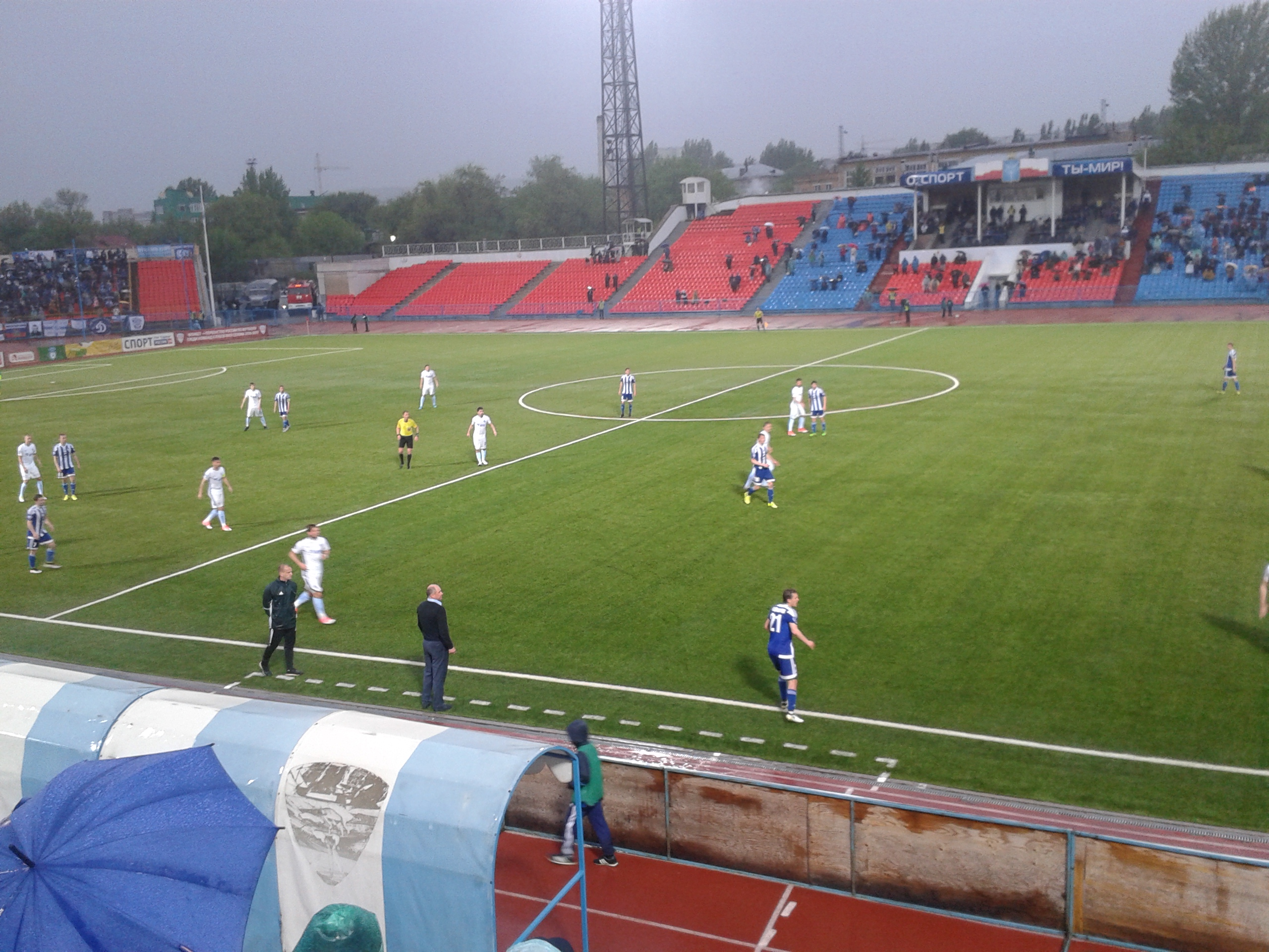 FC Sokol vs. FC Dynamo Moscow, 10 May 2017